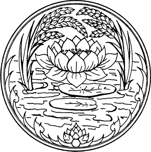 Provincial seal of Pathum Thani province.